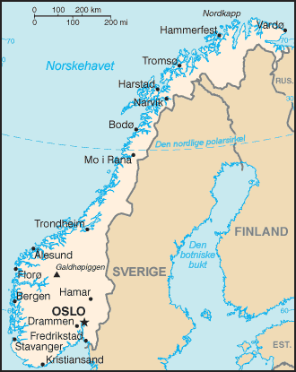 CIA map of Norway with Norwegian caption